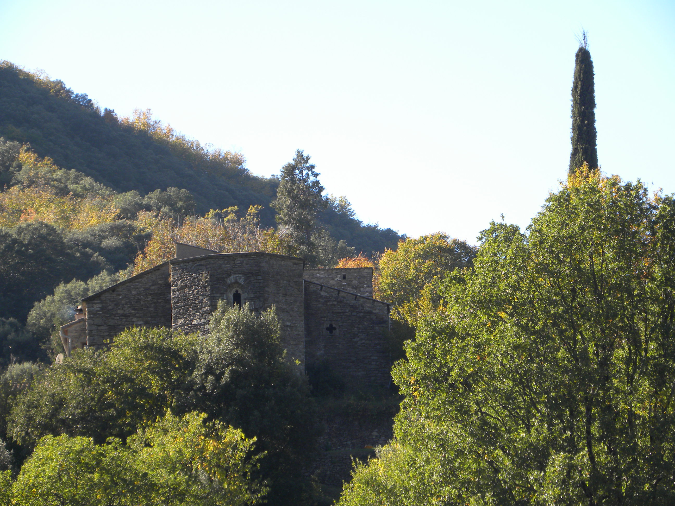 Church of St-Martin-de-Corconac